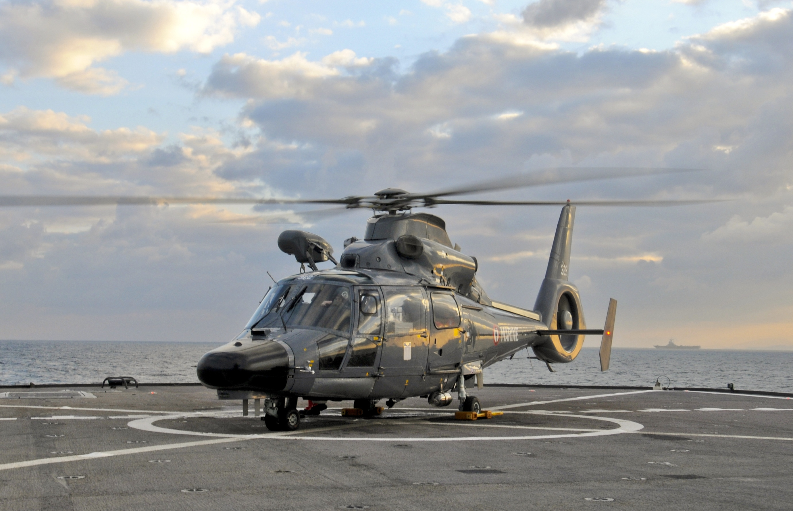 MEDITERRANEAN SEA (March 21, 2011) French navy AS365 F Dauphin rescue helicopter from the French aircraft carrier Charles de Gaulle (R91) test lands aboard the amphibious command ship USS Mount Whitney (LCC/JCC 20). Charles de Gaulle is operating in the Mediterranean Sea supporting the coalition led operations in response to the crisis in Libya. (U.S. Navy photo by Mass Communication Specialist 1st Class Gary Keen/Released)